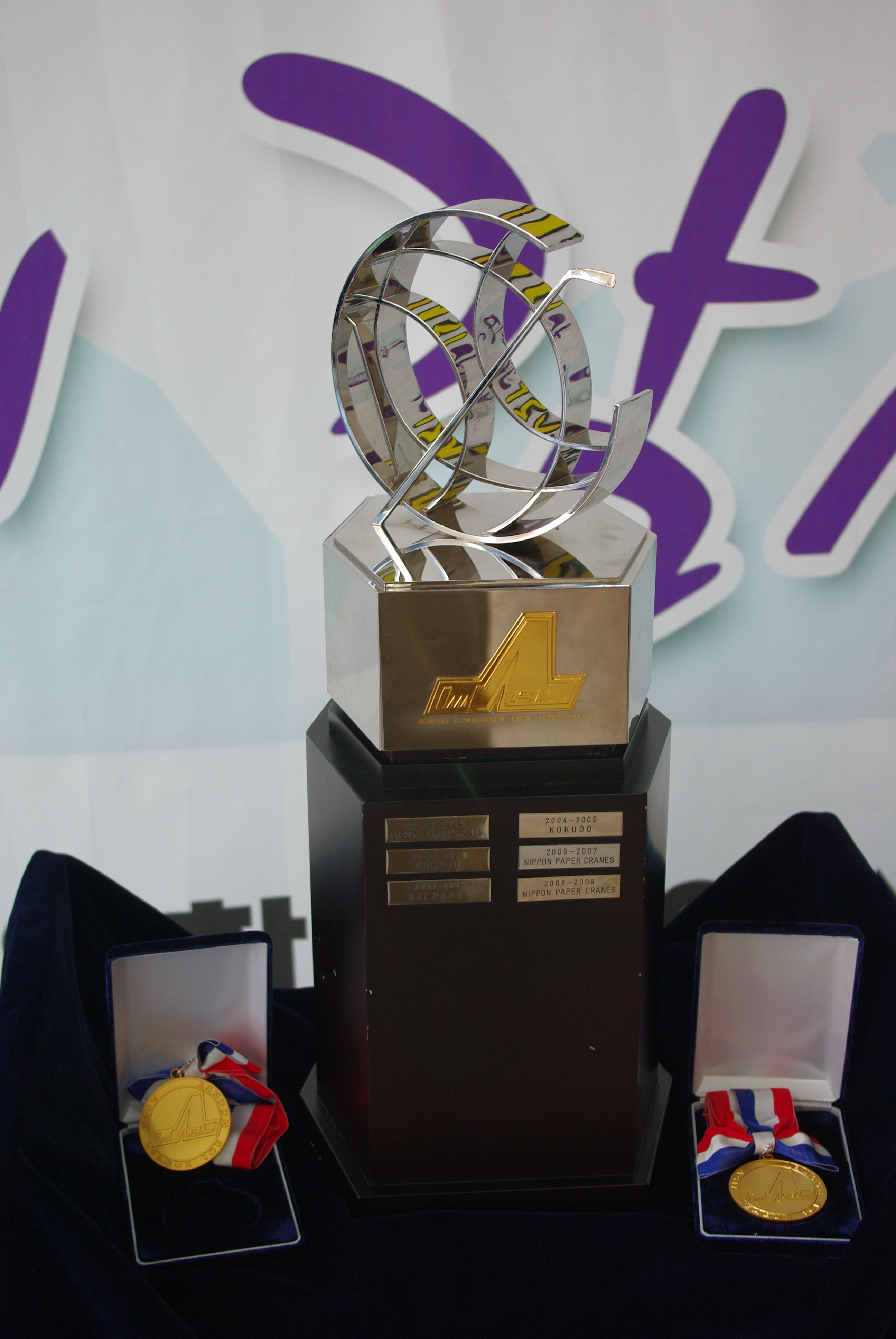 Photo of the Asia League Ice Hockey winner's trophy and medals